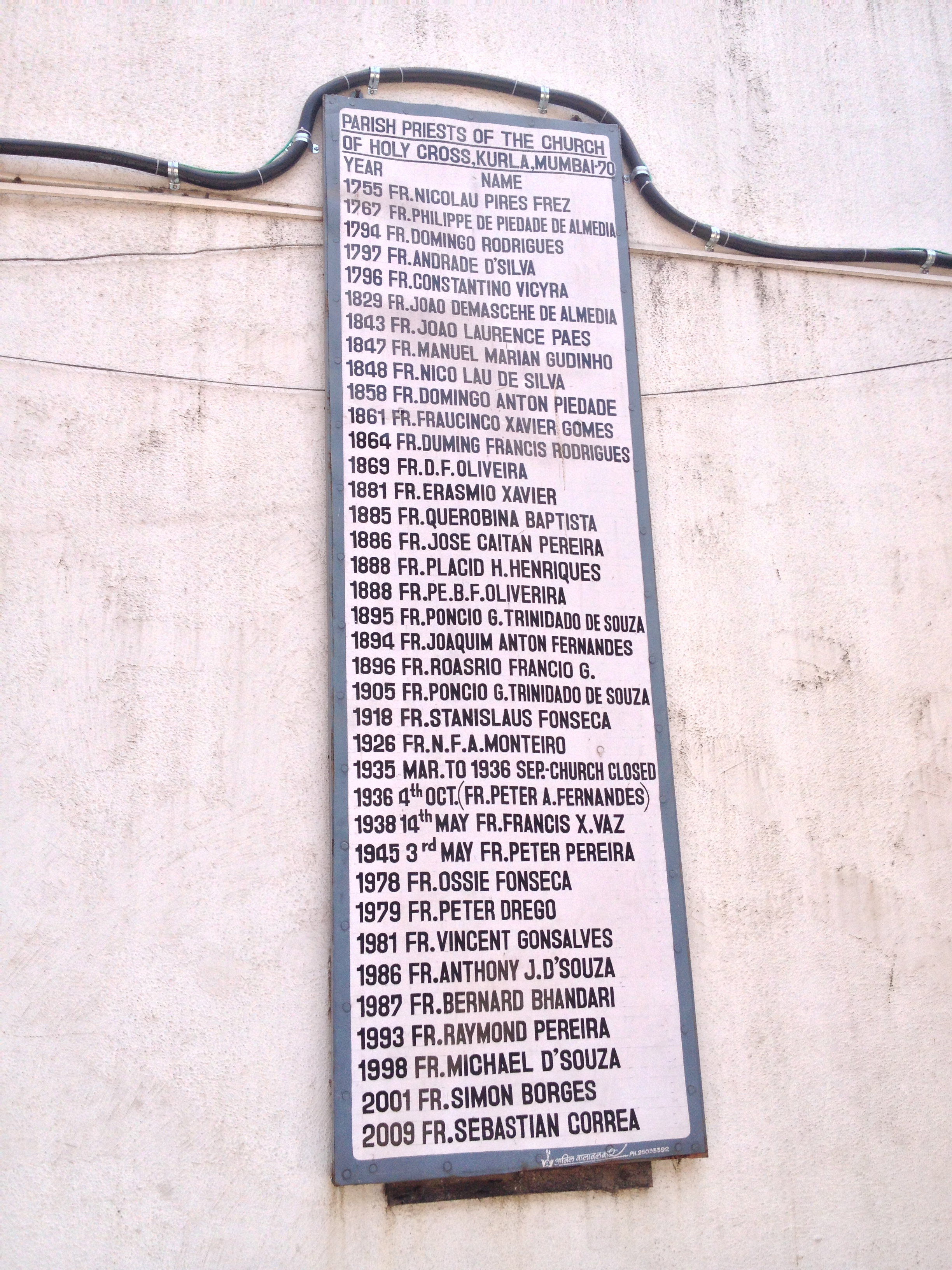 Holy Cross Church's former Parish priests displayed on a board on the church premises